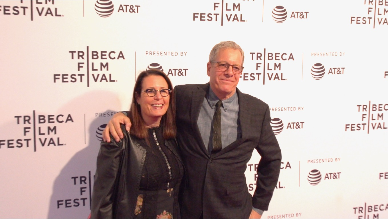 Red Carpet, Marcia & Jeff